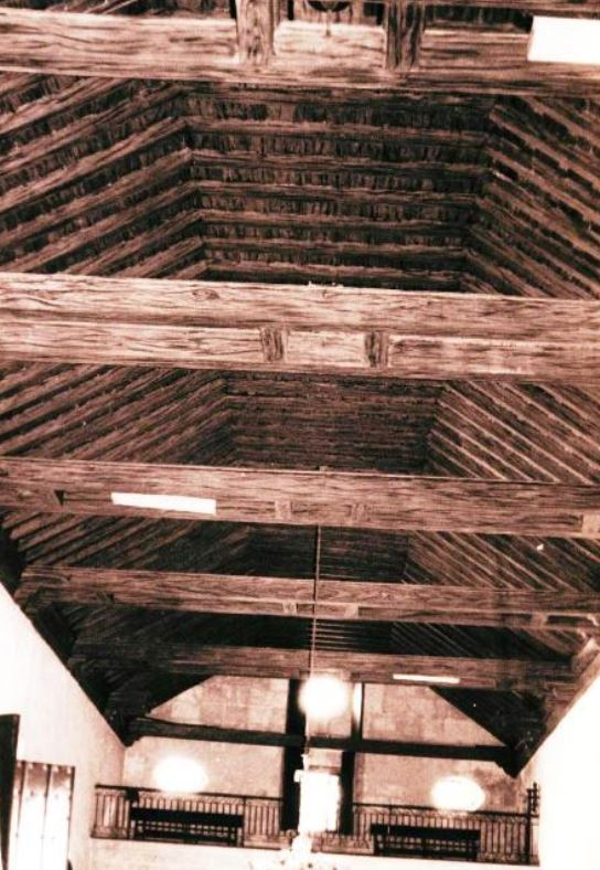 Iglesia del Espíritu Santo_roof structure. Havana, Cuba